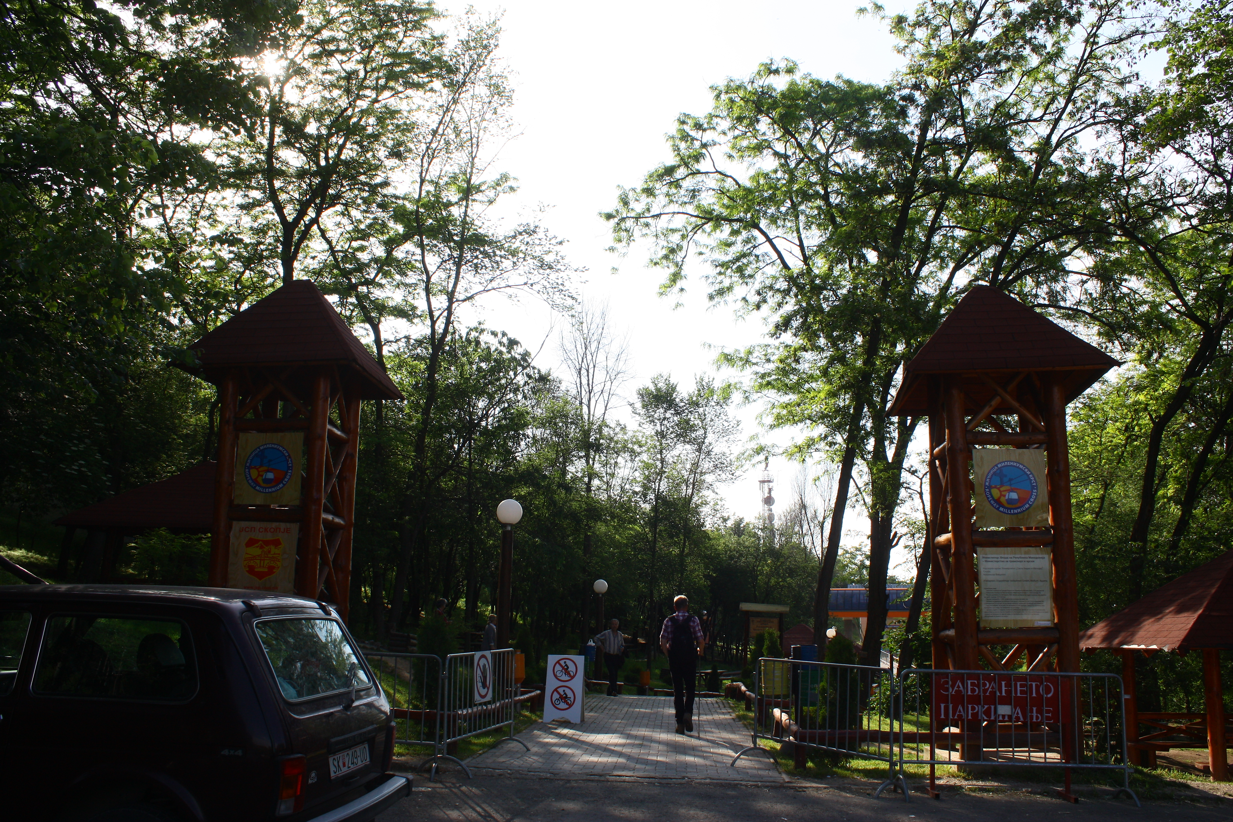 Vodno mountain over Skopje, Macedonia